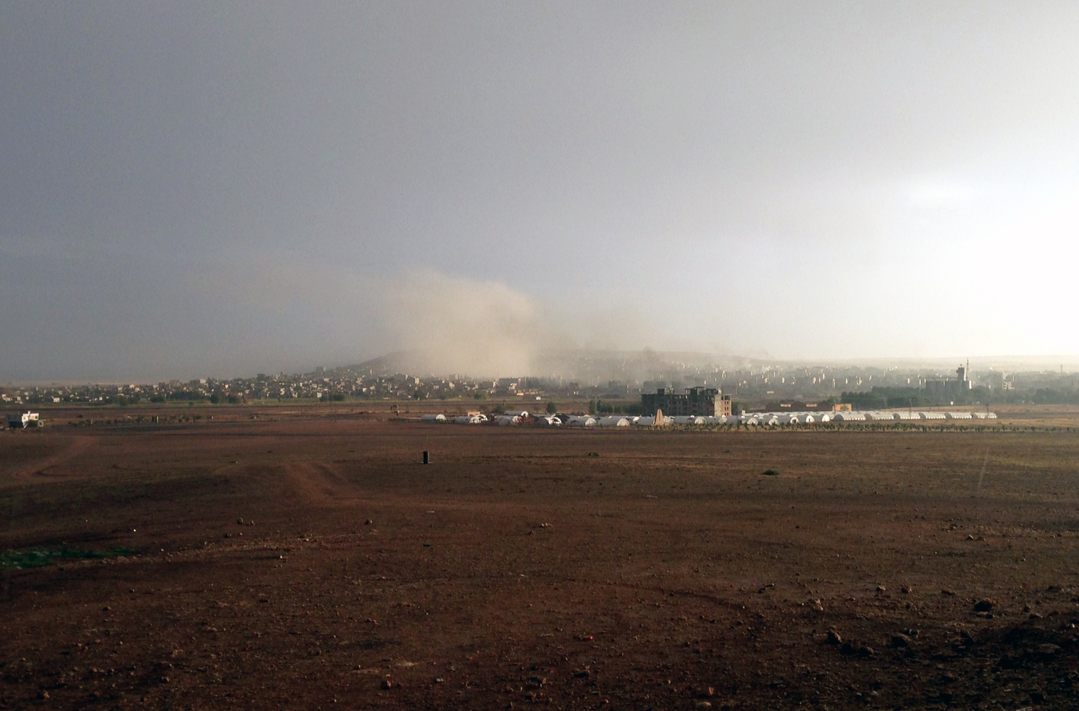 A view point of the city Kobanê, in Syrian Kurdistan, during the bombardment of ISIL targets by US-led forces, The photo has been taken from Turkish-Syrian border (Suruç). Photo: M. Akhavan / Persian Dutch Network